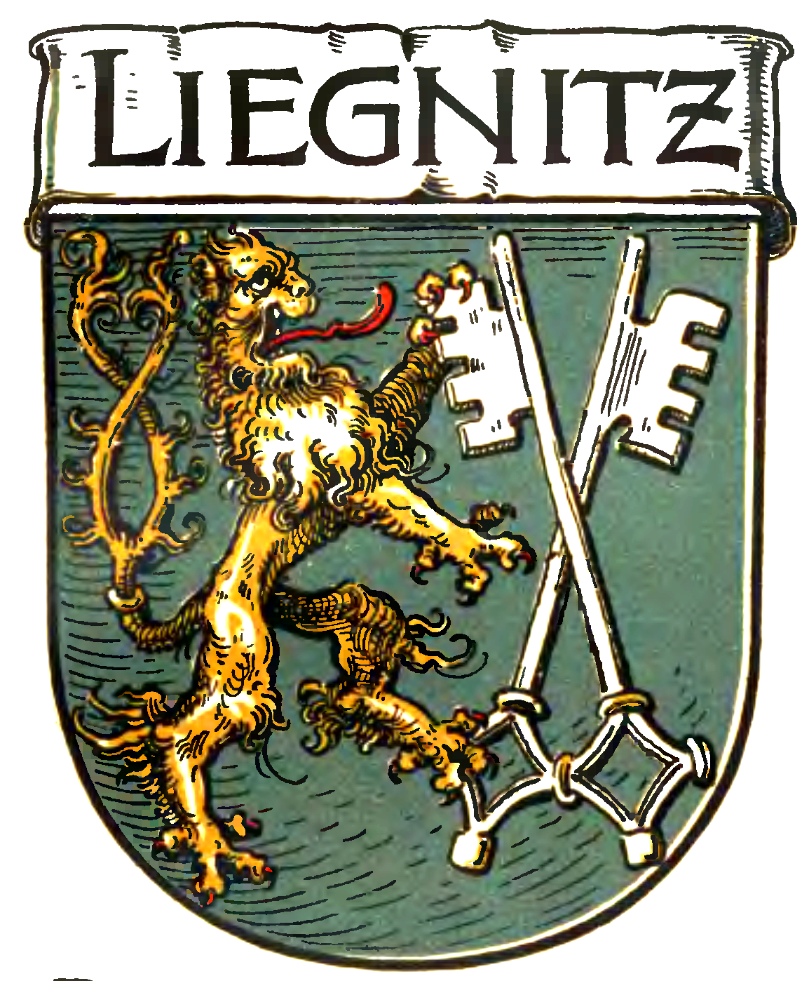 Liegnitz coat of arms